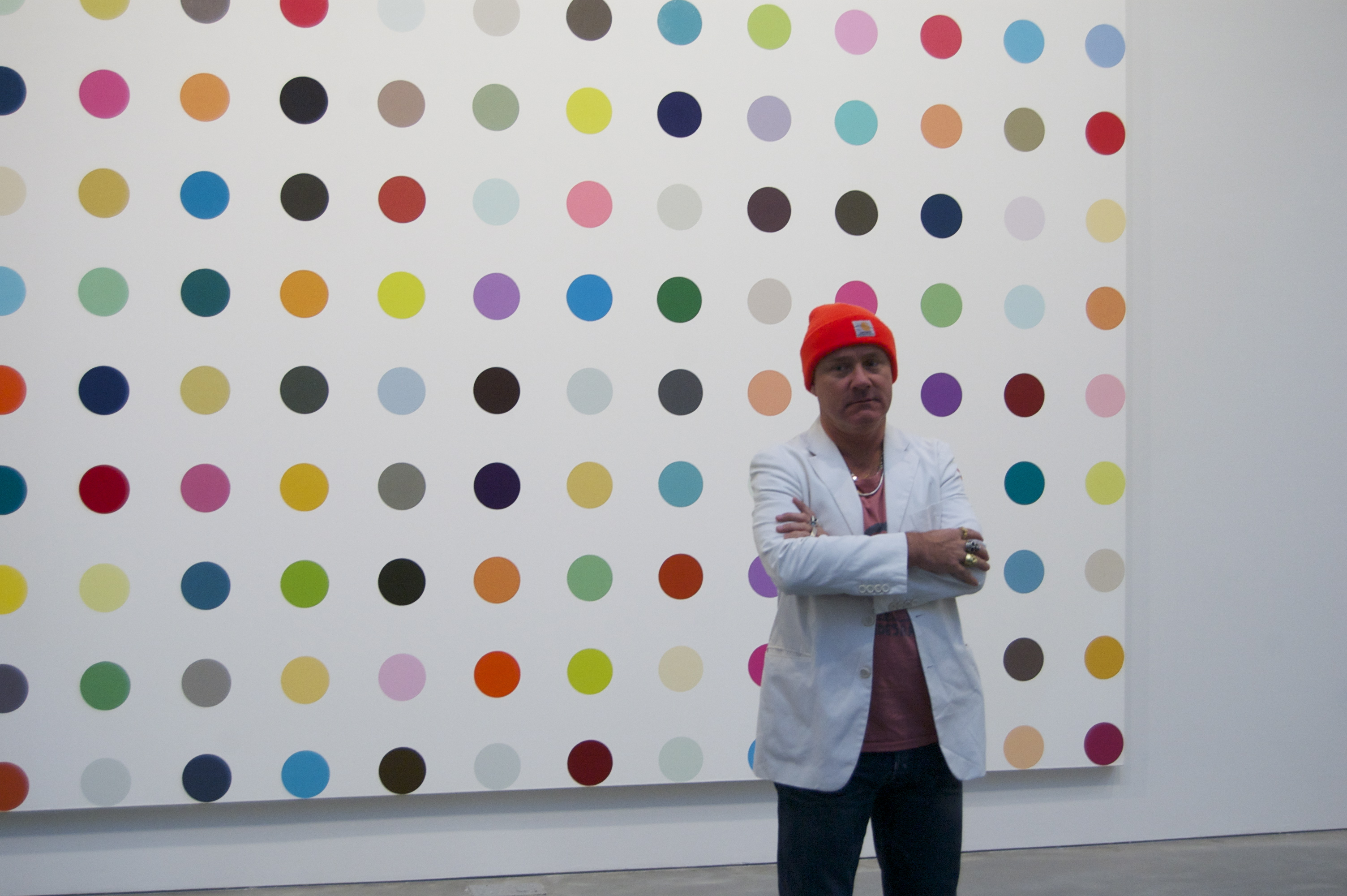 Damien Hirst at the exihibition Damien Hirst The Complete Spot Paintings 1986-2011, Gagosian Gallery, NYC.